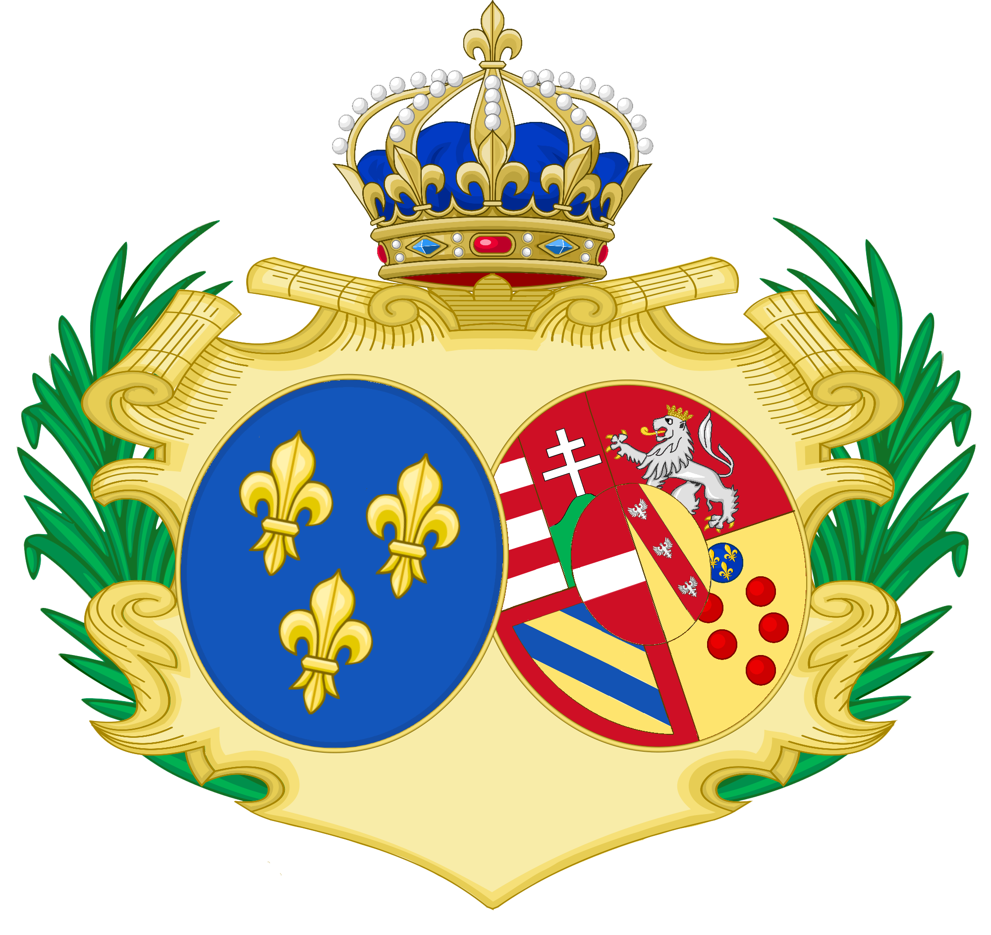 Arms of Marie Antoinette of Austria (1755-1793). To improve if necessary.